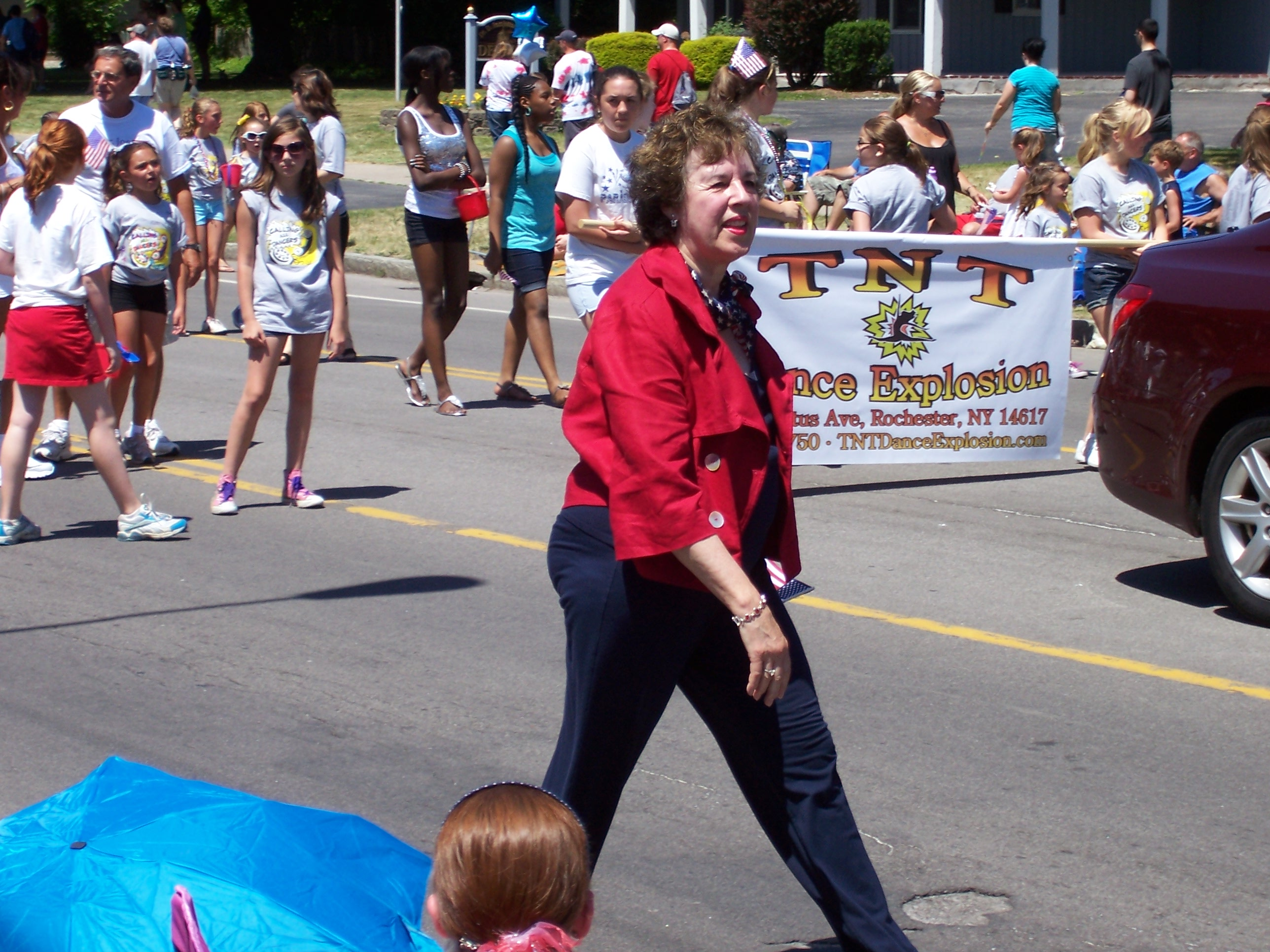 Sandra Frankel marching in the 2011 Irondequoit, New York Independence Day parade